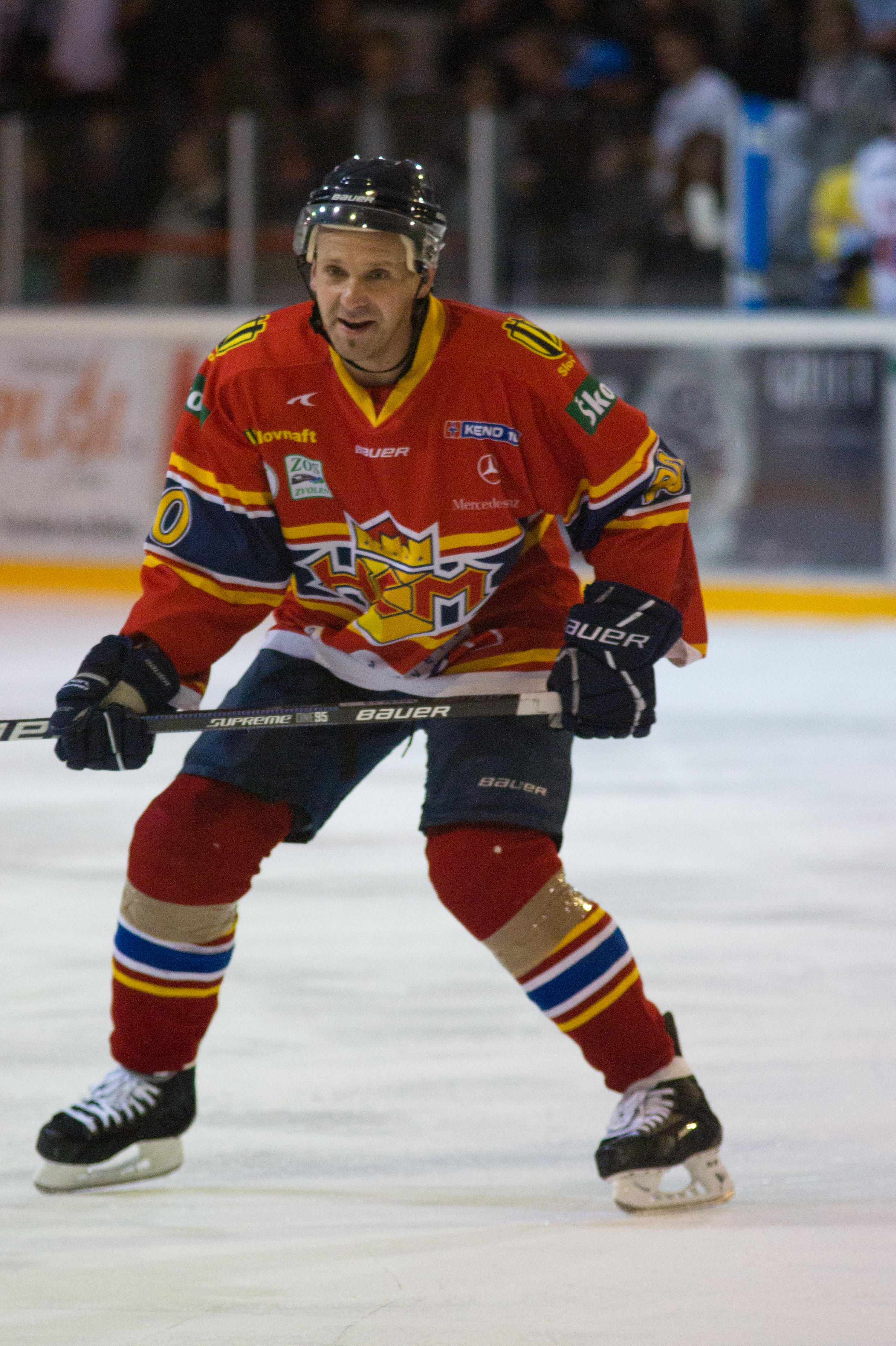 Festyvhockey 2010, Yverdon-les-Bains. The making of this document was supported by Wikimedia CH. (Submit your project!) For all the files concerned, please see the category Supported by Wikimedia CH.